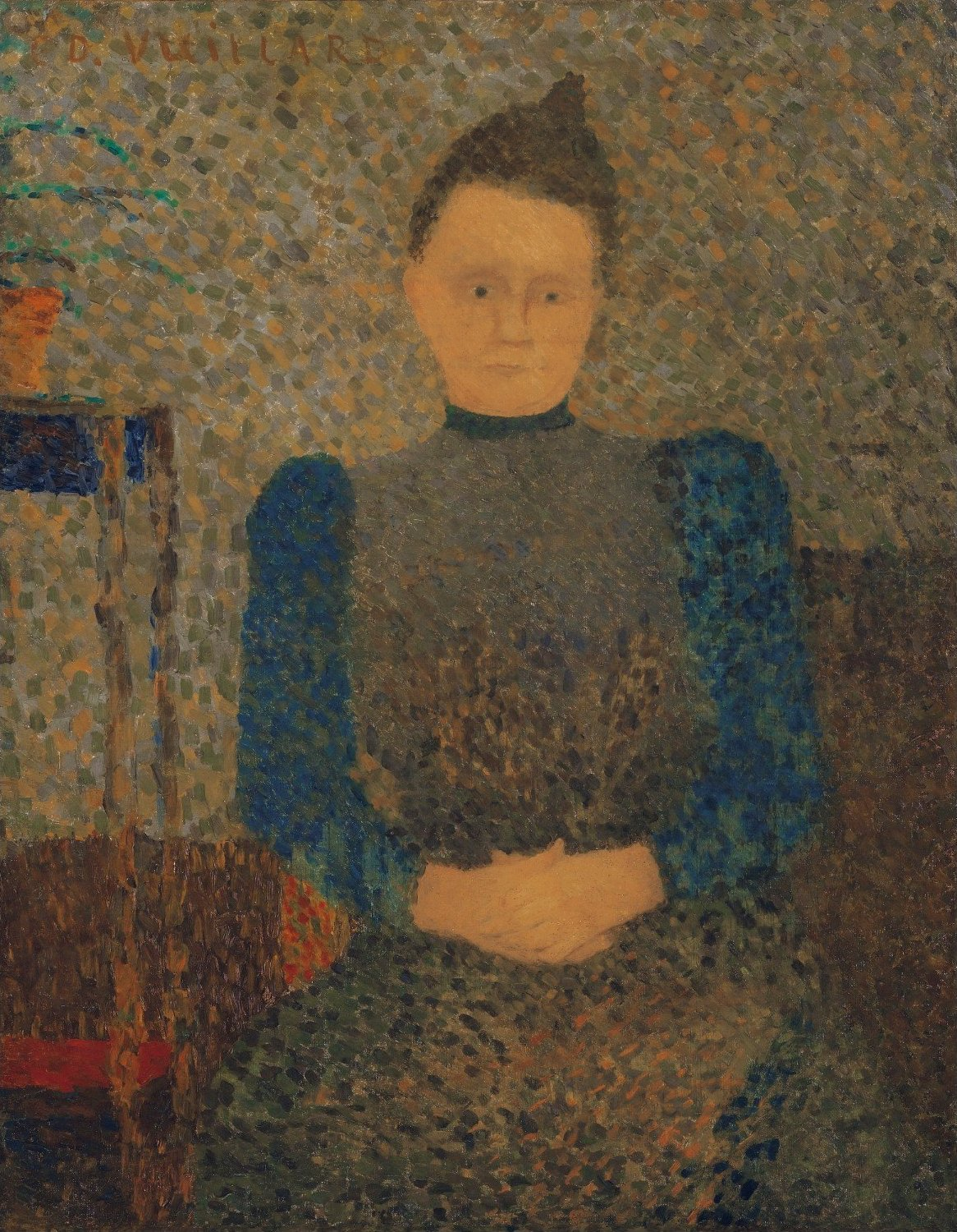 Portrait Schématique de Marie Vuillard by Édouard Vuillard, oil on canvas, 92 by 73.5cm., 1890